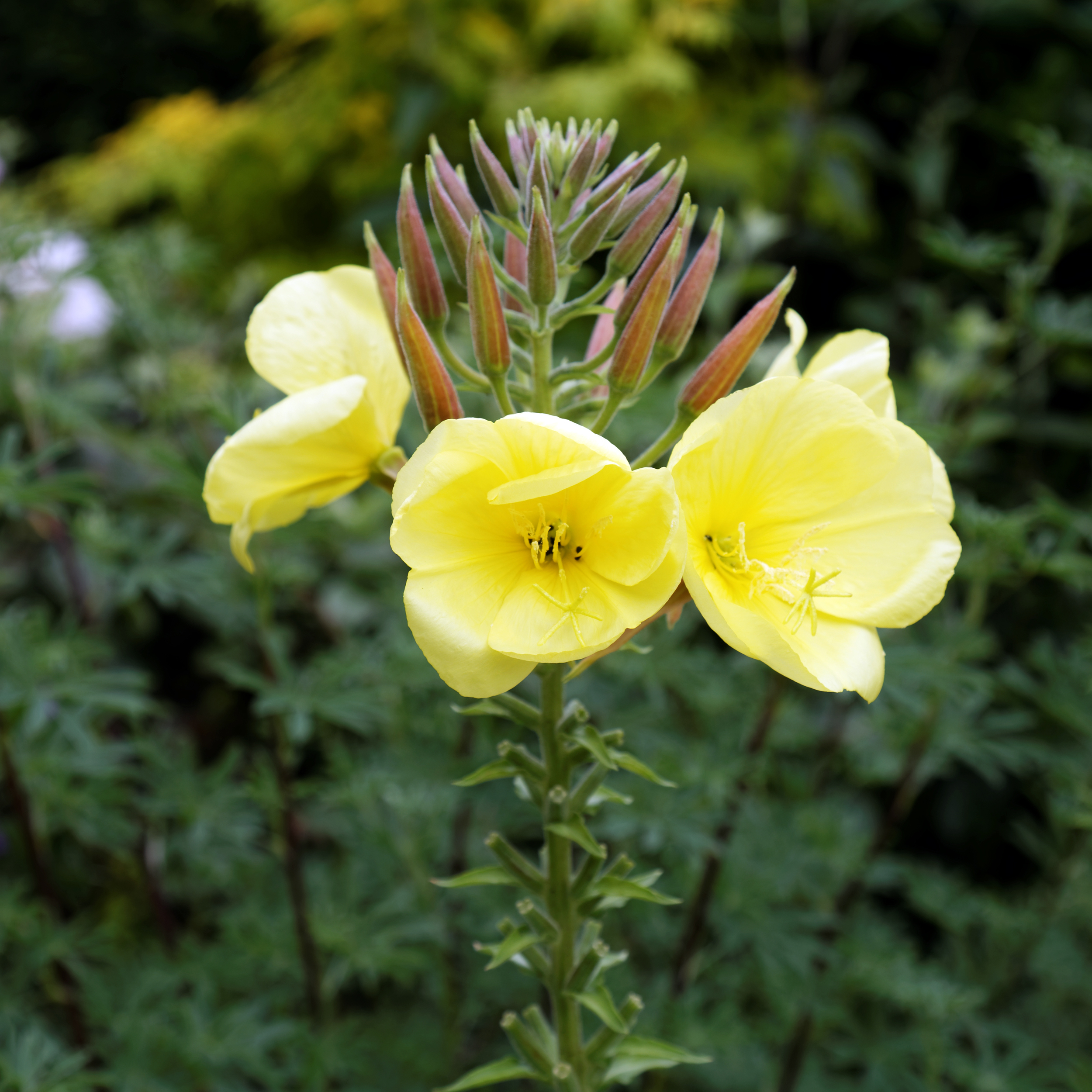 An Evening primrose, Oenothera biennis, cultivated as part of a border in a garden in the civil parish of Nuthurst, West Sussex, England.Camera: Canon EOS 6D with Canon EF 24-105mm F4L IS USM lens.Software: RAW file lens-corrected and optimized with DxO OpticsPro 11 Elite and Viewpoint 2, and further optimized with Adobe Photoshop CS2.